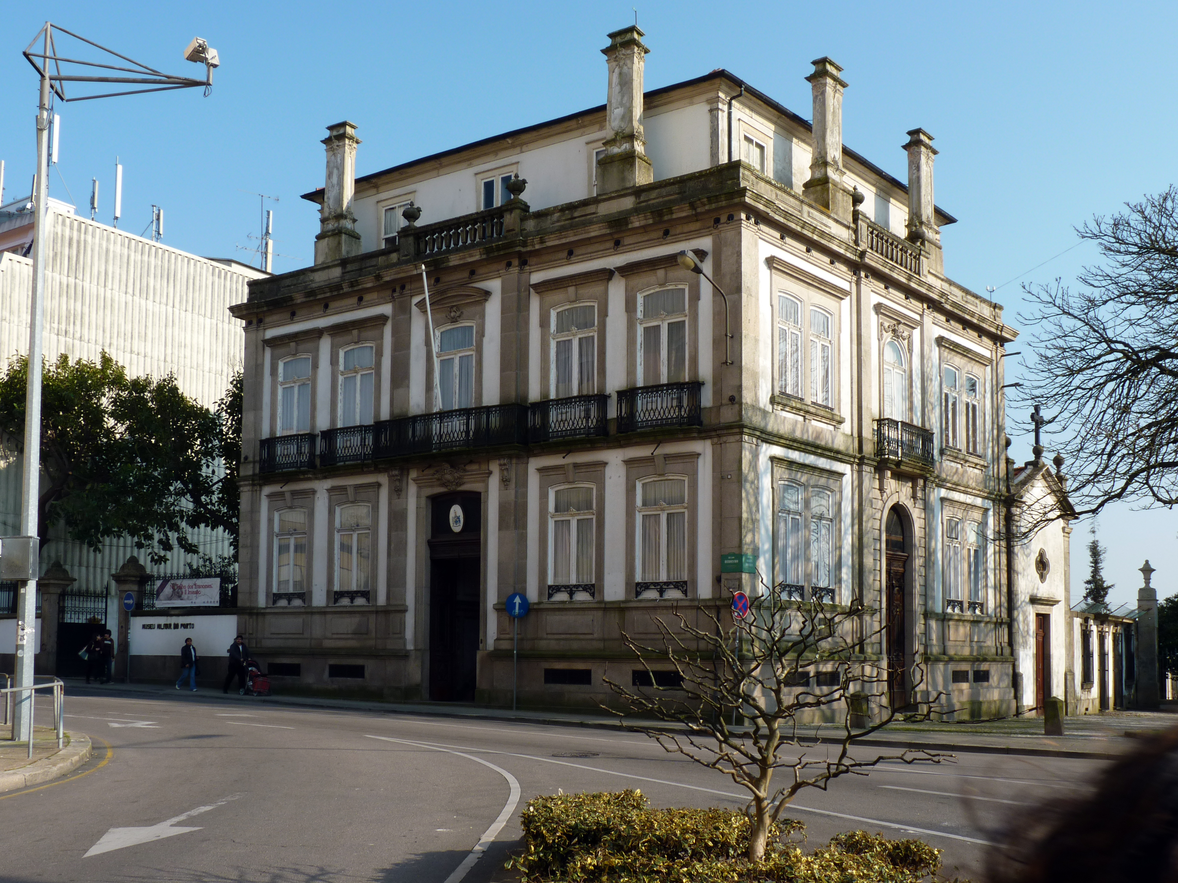 Oporto Military Museum. Located at Bonfim freguesia, Oporto, Portugal.